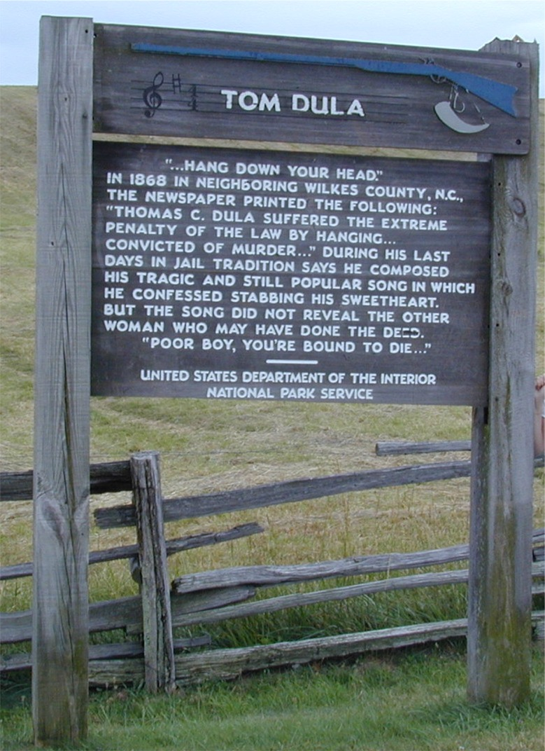 "Tom Dooley sign" at The Lump. Photo by Jan Kronsell, 2002.